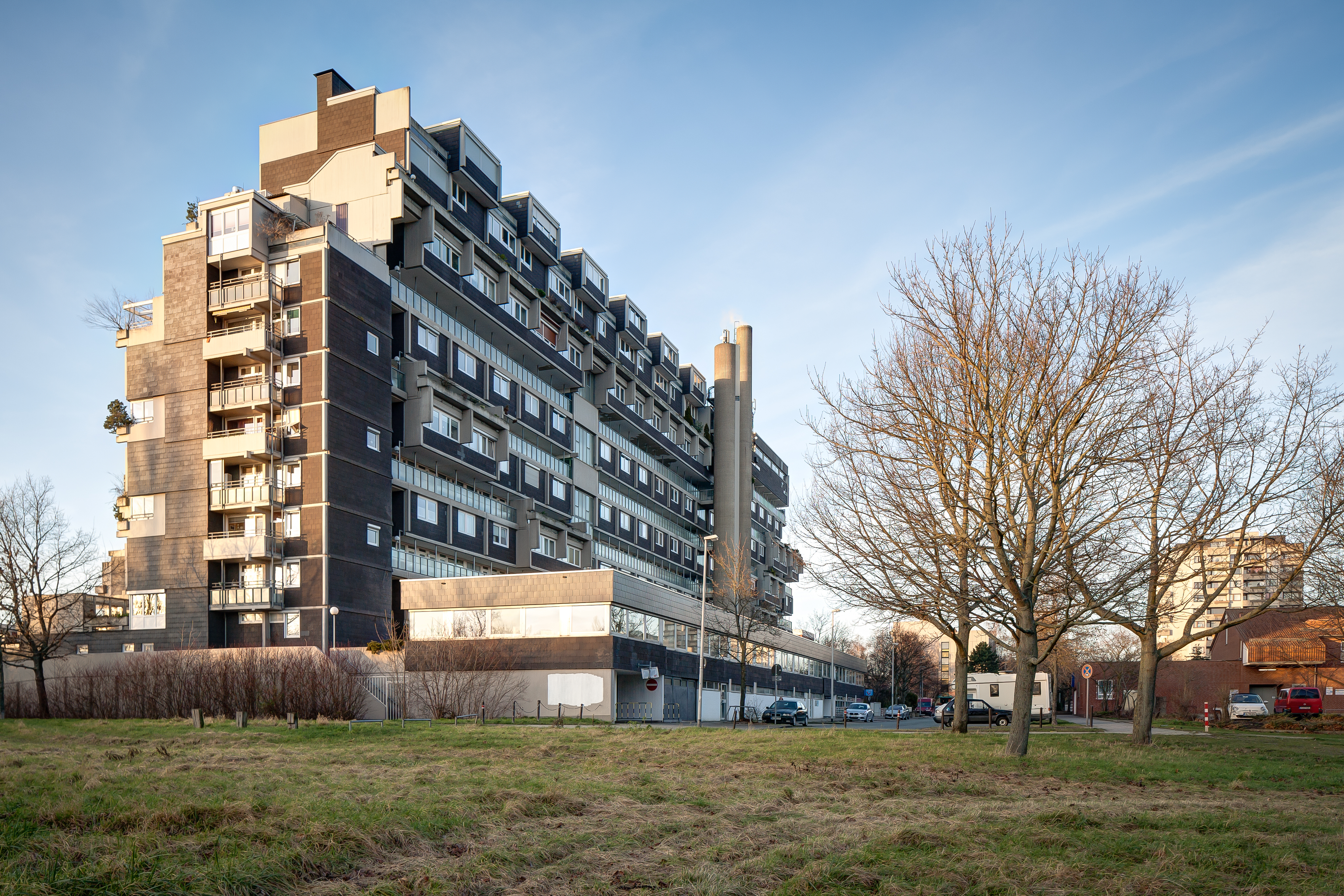 Highrise "Terrassenhochhaus" located in Hanover's district Davenstedt, Germany. The image depicts the eastern side.